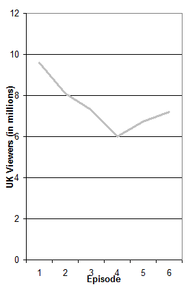 A graph created on Microsoft Excel to show the viewership of the first series of British spy drama Spooks